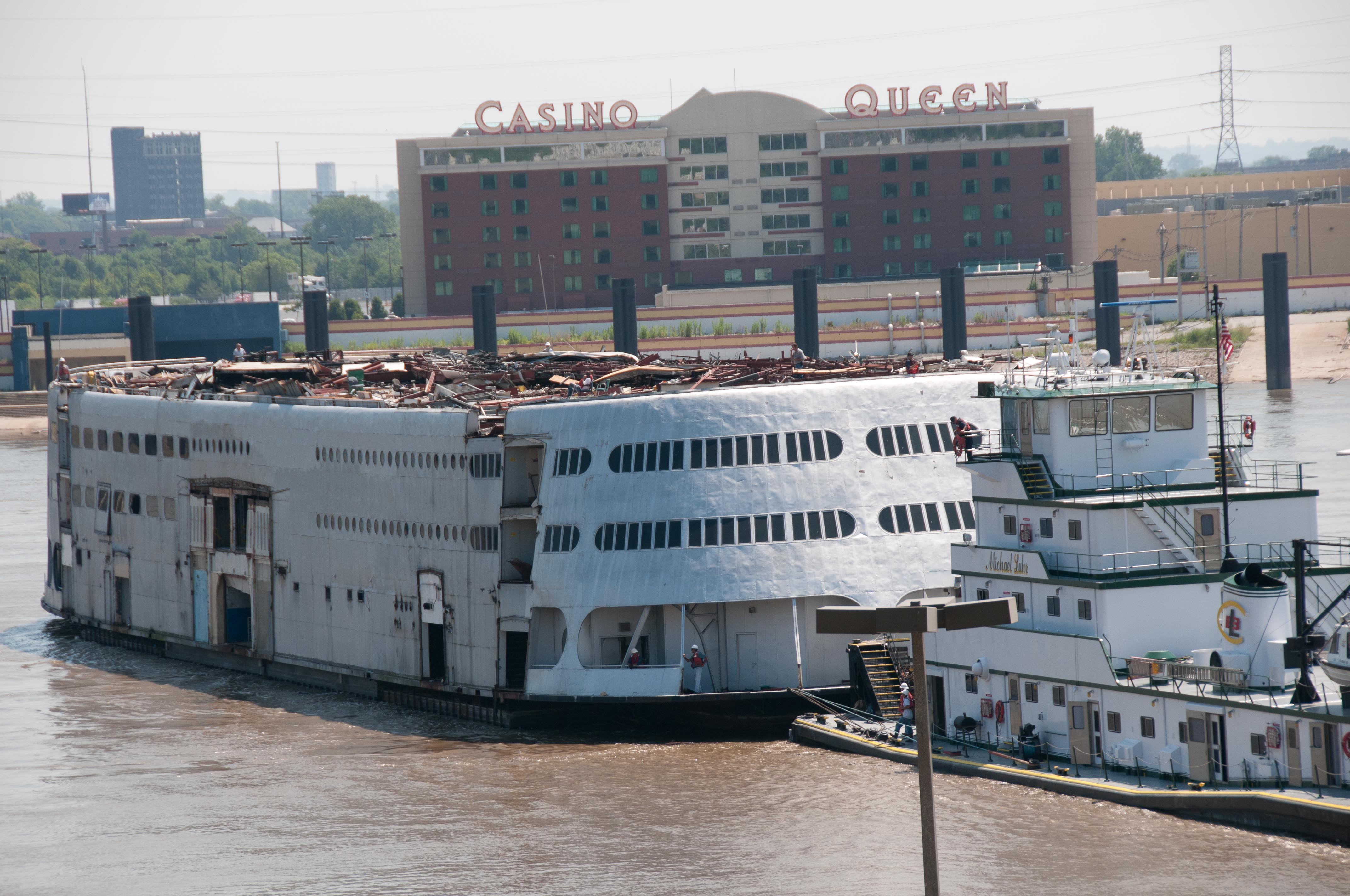 S.S. Admiral being towed from St. Louis to be scrapped on July 19, 2011. The upper decks have already been removed.